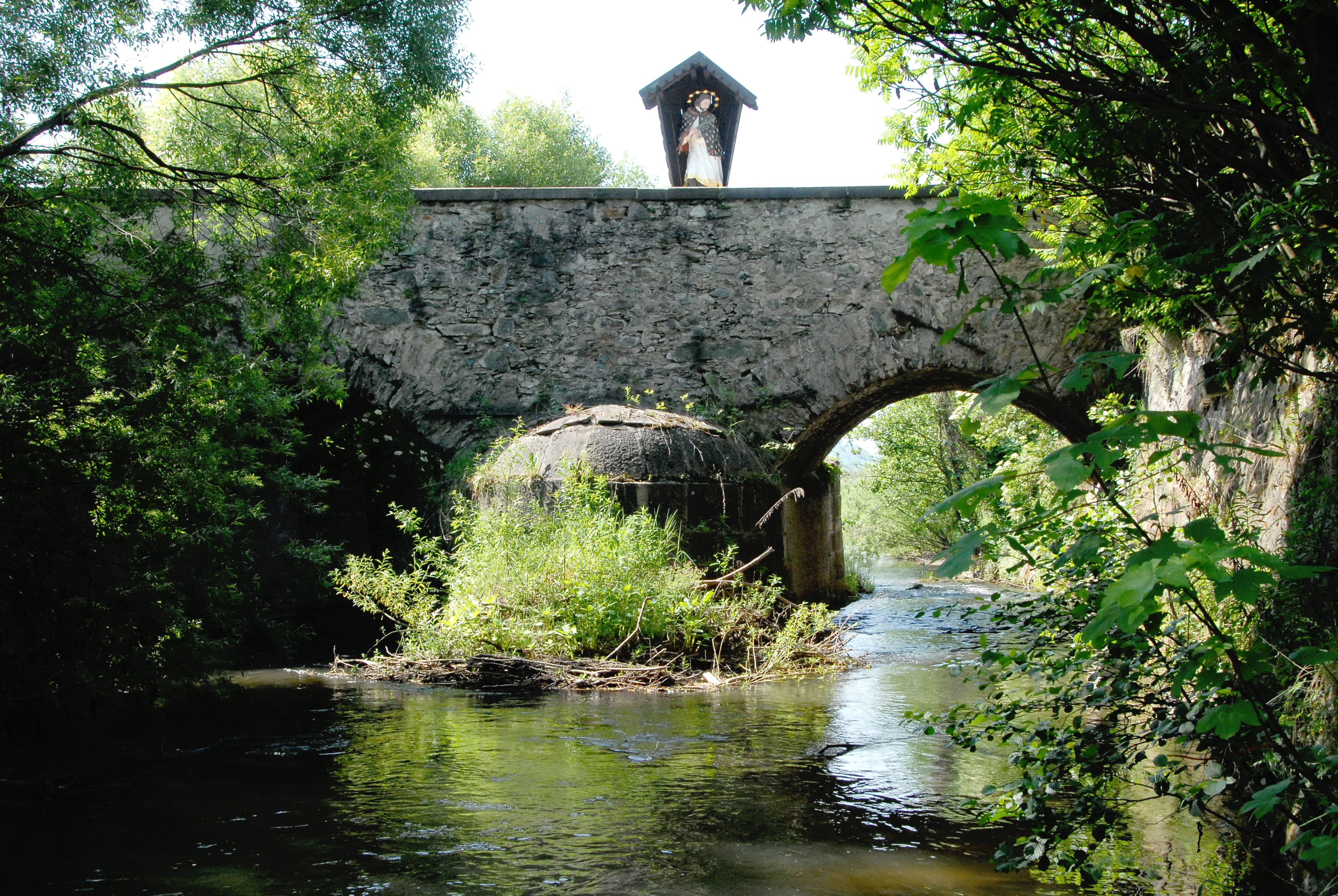 Old stone arch bridge across the Glan river, dated from the 18th century with the patron saint Johannes Nepomuk, at Unterglandorf in the municipality Saint Veit on the Glan, district Sankt Veit an der Glan, Carinthia, Austria